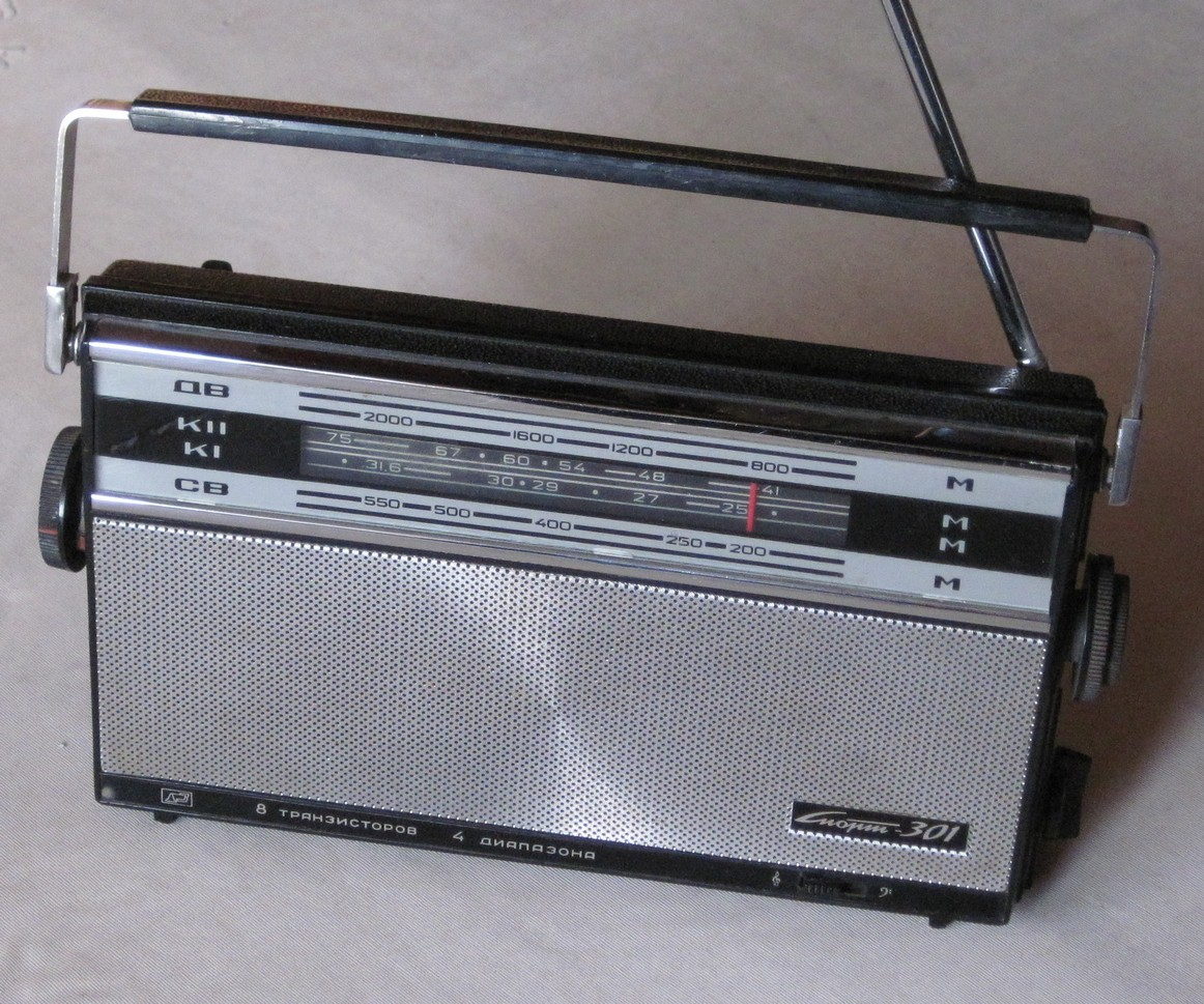 Sport-301 portable radio receiver, USSR, Dnepropetrovsk factory, 1971